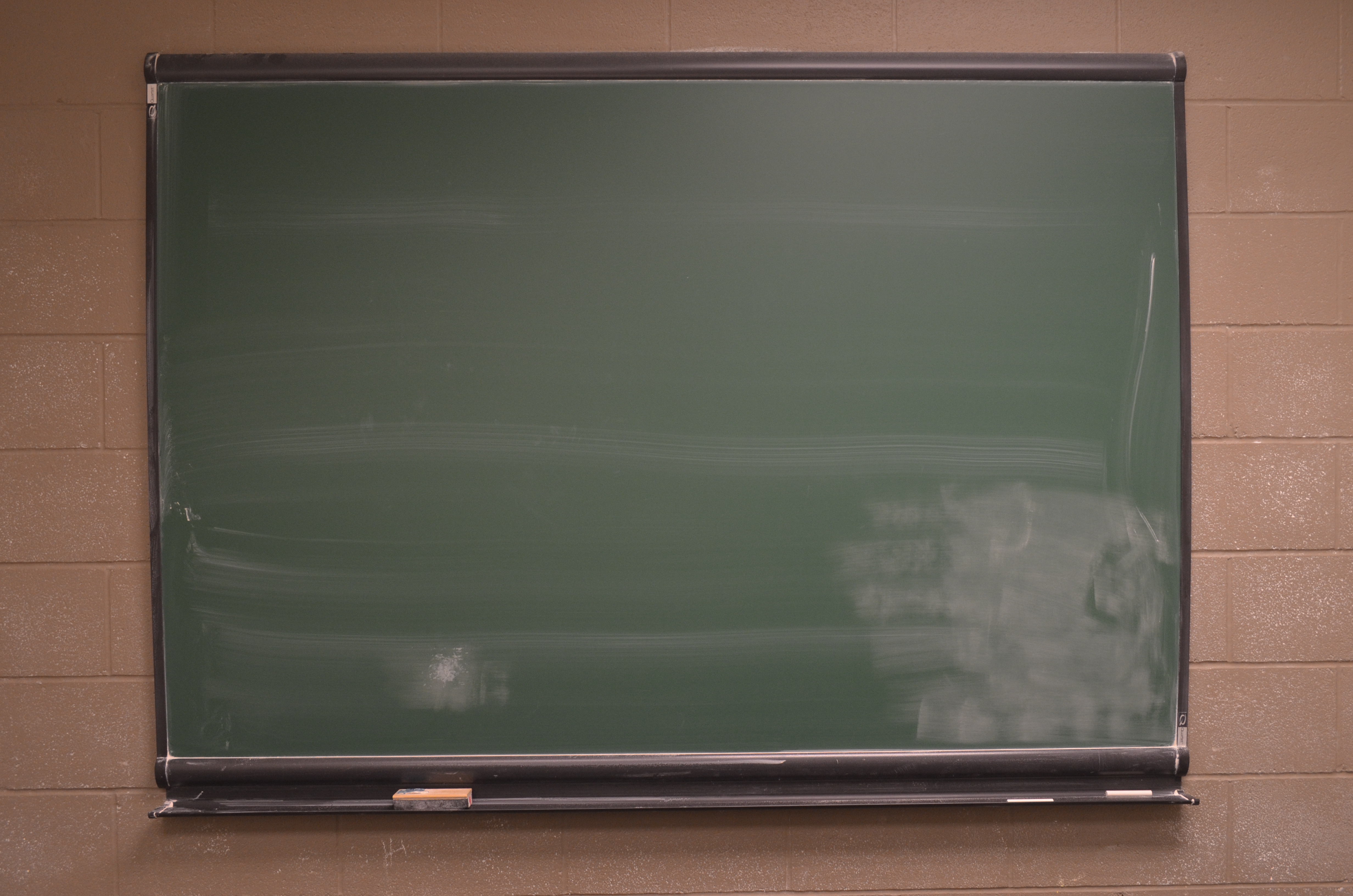 Blank chalkboard and duster.